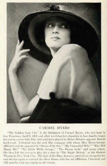 Actress Carmel Myers from Who's Who on the Screen, published by Ross Publishing Co., 1920 [1]